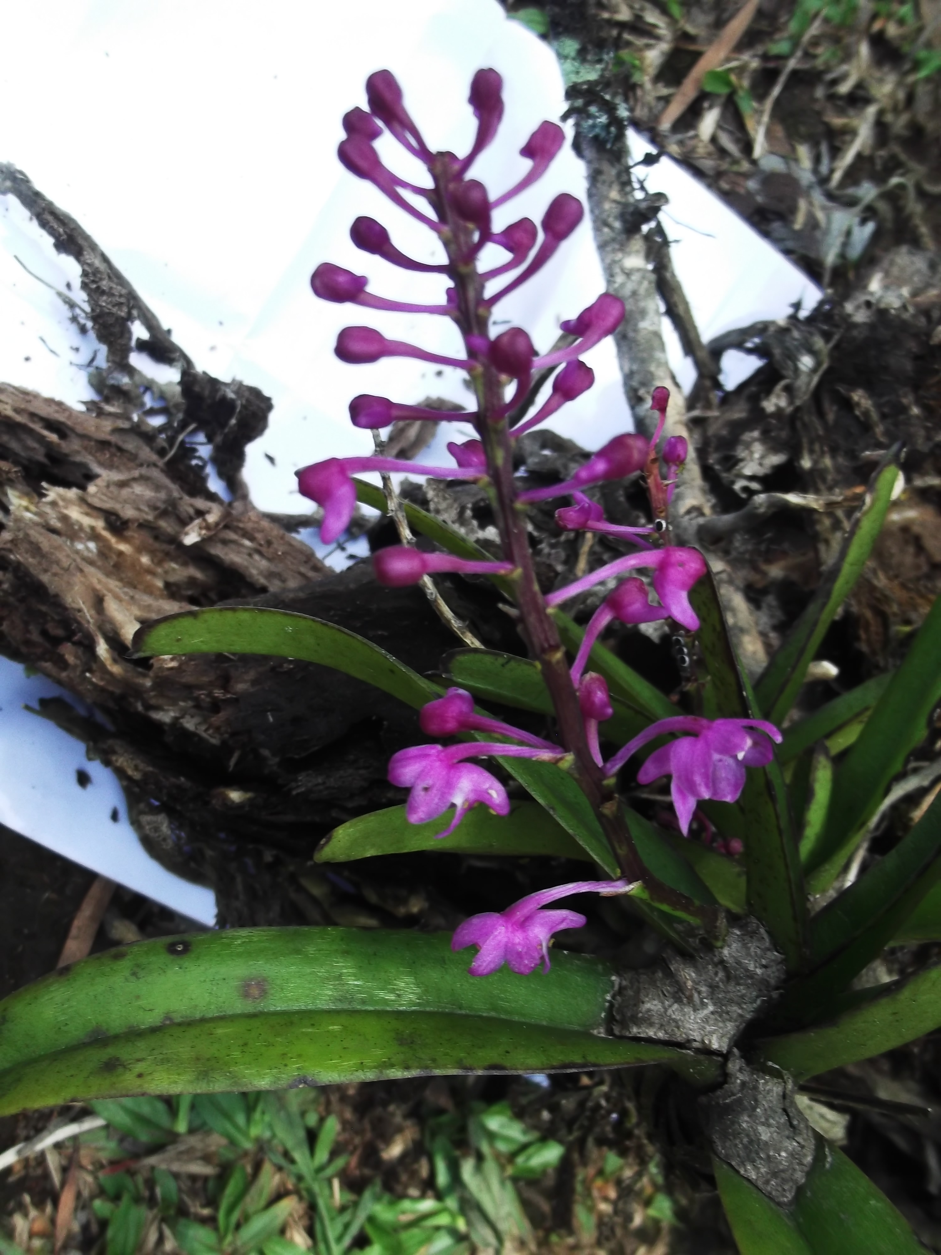 Orchids-Epiphyte,flowers pink.